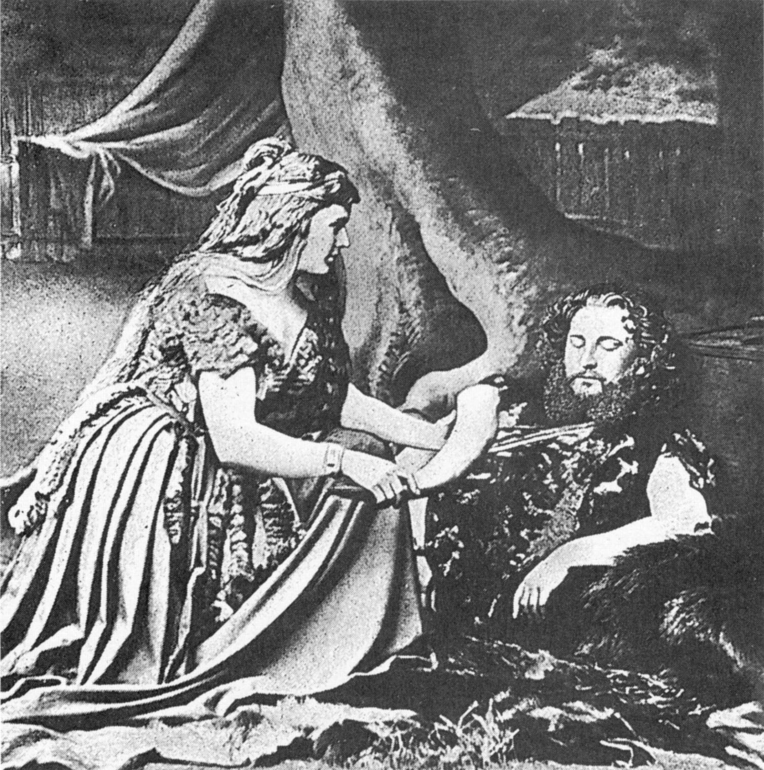 Sieglinde (Therese Vogl) offers Siegmund (Heinrich Vogl) a horn of mead from Act I of the 1870 production of Wagner's Die Walküre.